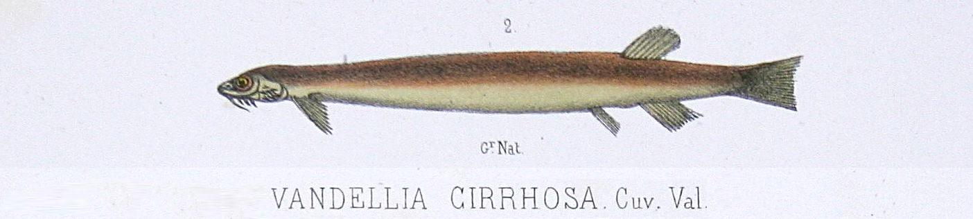 Vandellia plazaii (now syn. of Vandellia cirrhosa) & Vandellia cirrhosa